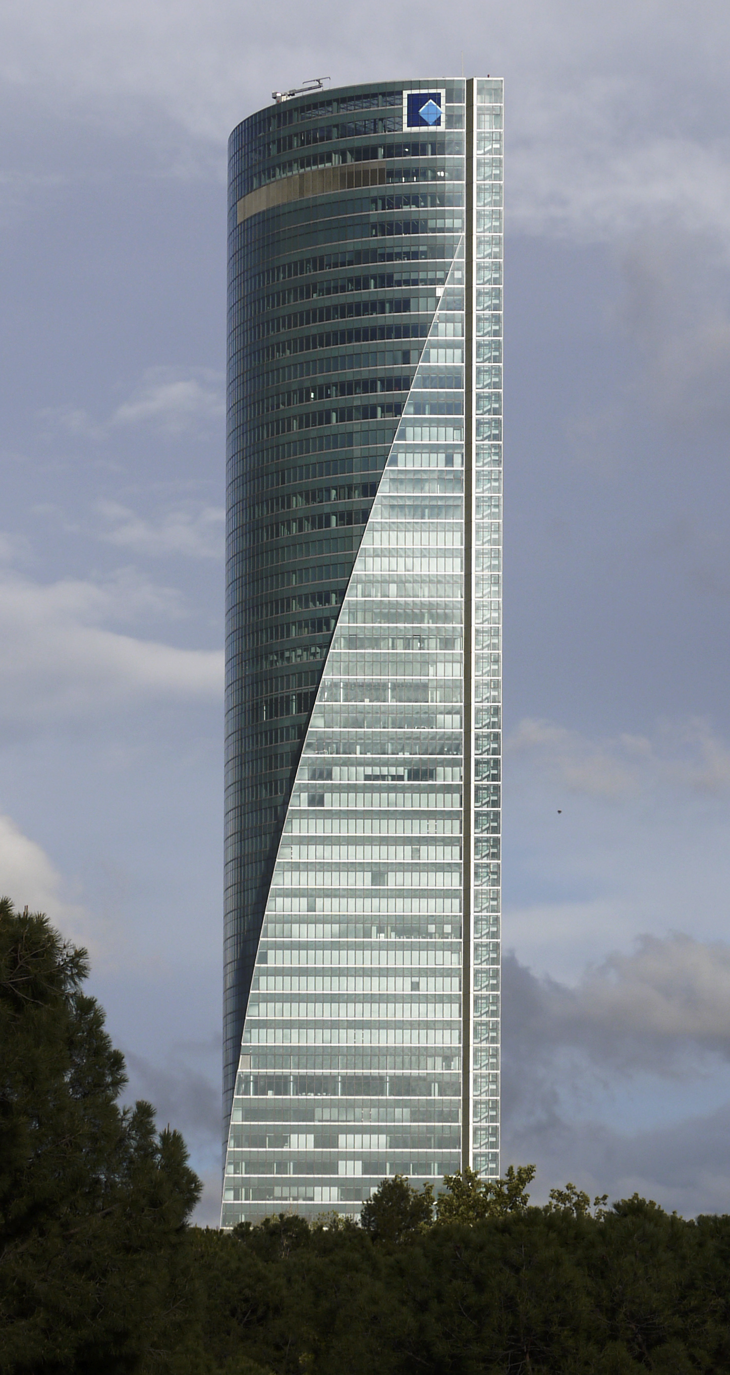 Madrid Cuatro Business Area, Torre Espacio. Madrid, Spain